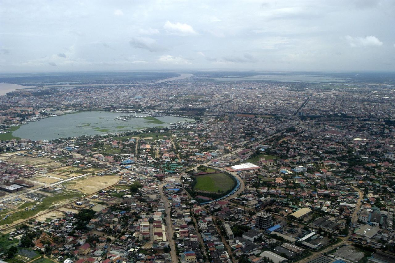 Phnom Penh aerial view